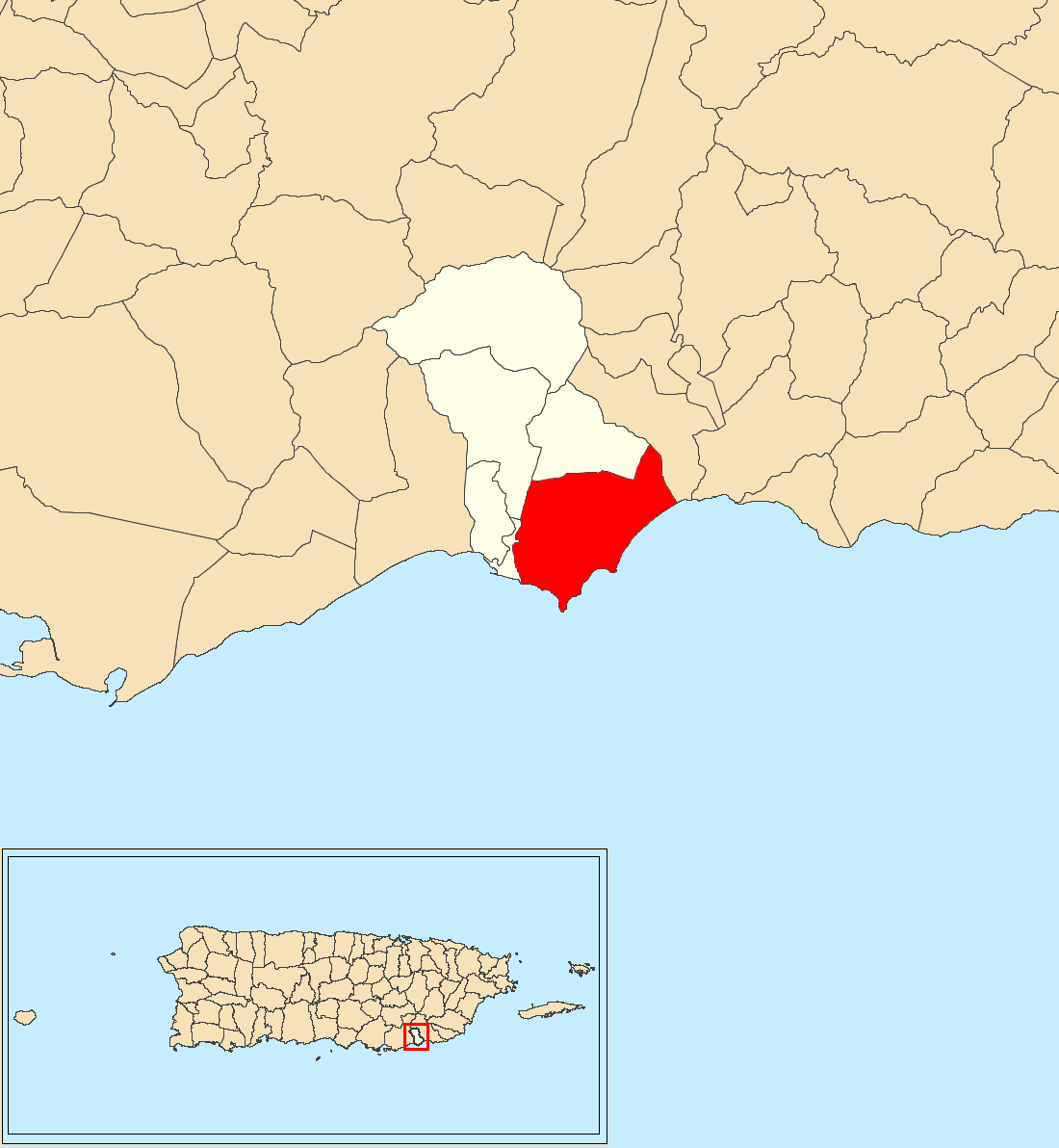 Palmas, Arroyo, Puerto Rico locator map